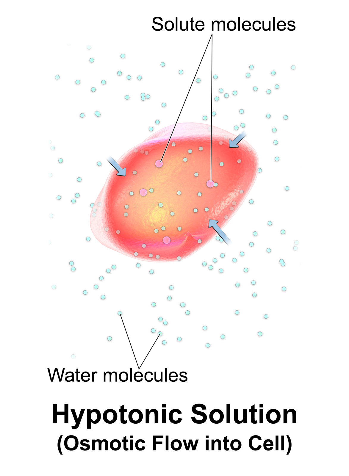 Hypotonic Solution. See a related animation of this medical topic.